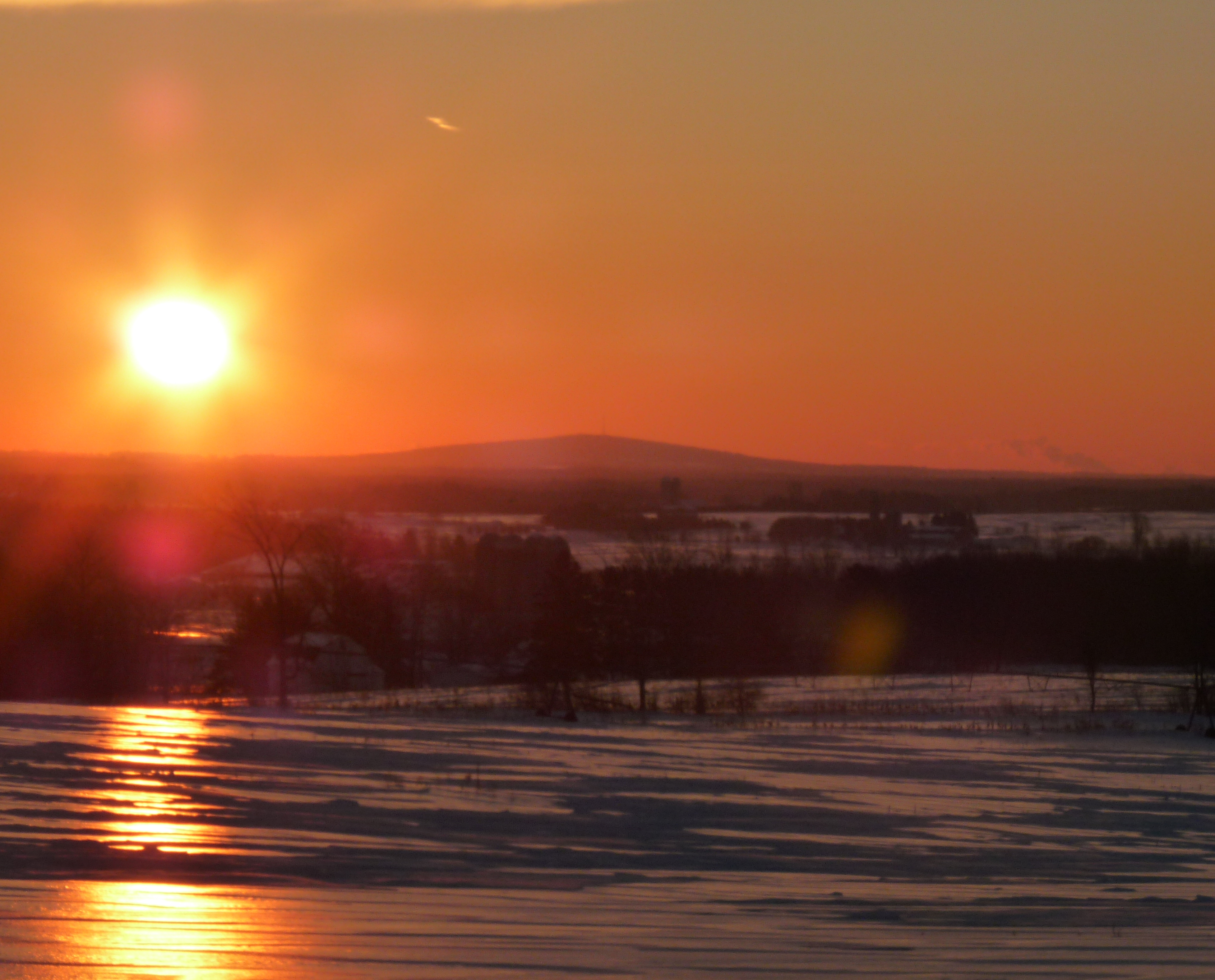 Looking southeast from Nasonville, Wisconsin, across the town of Rock and Wood County on a February morning. Powers Bluff is in the middle. The plume on the right horizon must be from a paper mill at Wisconsin Rapids or Port Edwards.